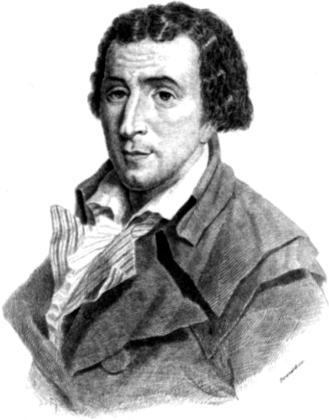 Jacques Pierre Brissot (1754-1793), journalist and politician the French Revolution.